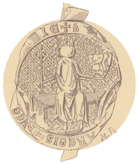 Seal of King Haakon VI Magnusson of Norway, based on five documents, dated 1358–76. Text: "✠ S[igillum haconis (haqvini?) dei graci]A REGIS [no]RVEG[ie et swec]IE". Size: 65 mm.